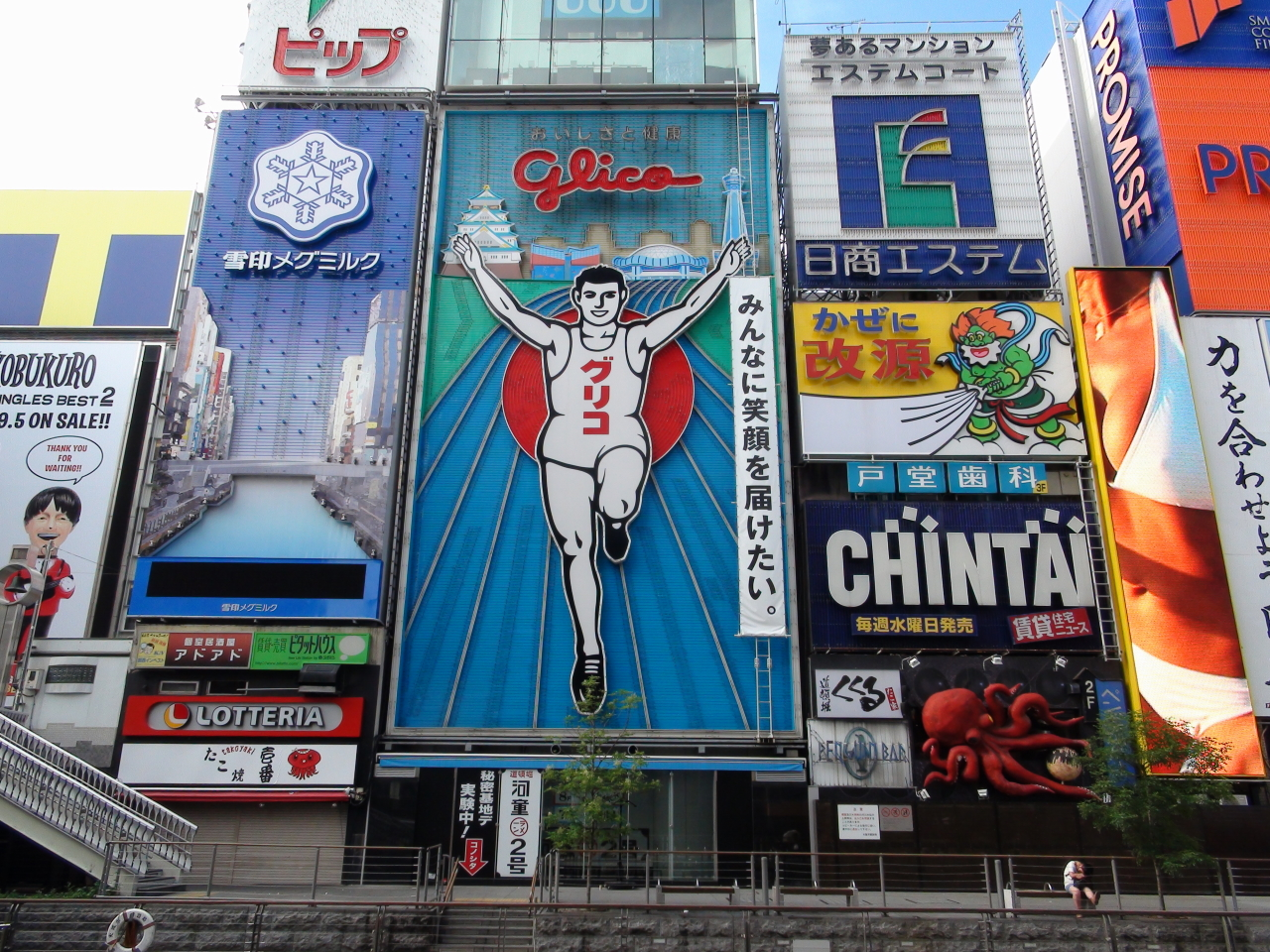 Neon sign of Dotonbori daytime